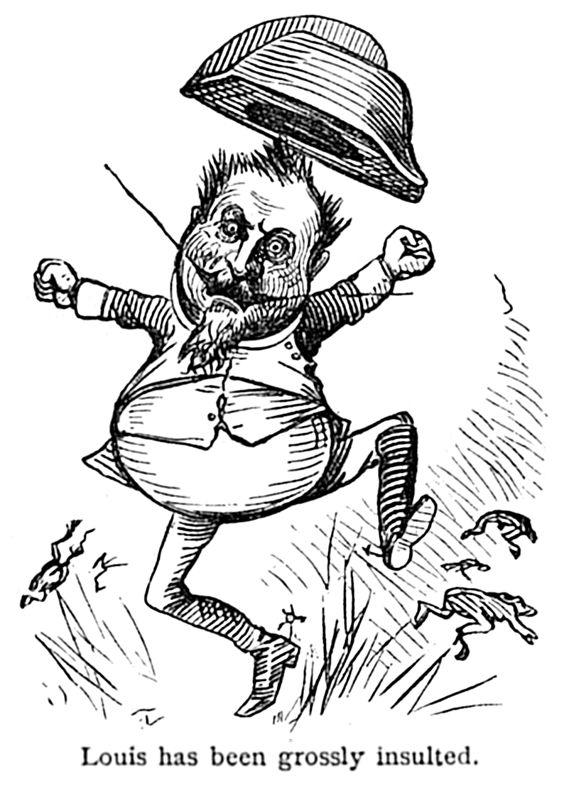 Illustration of the Franco-Prussian War